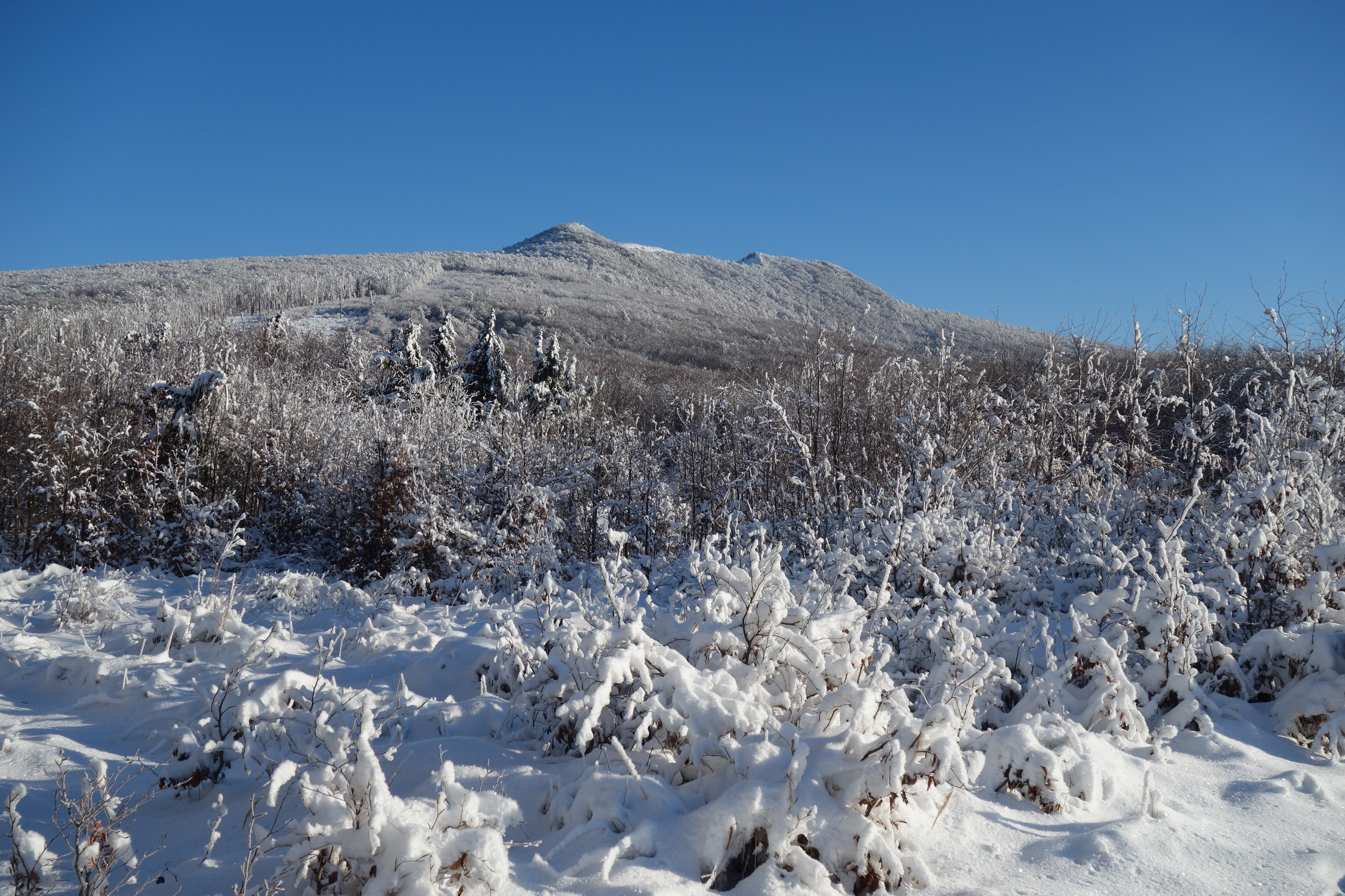 View of Vihorlat from the southwest in the winter This is a photography of Natura 2000 protected area with ID SKUEV0025